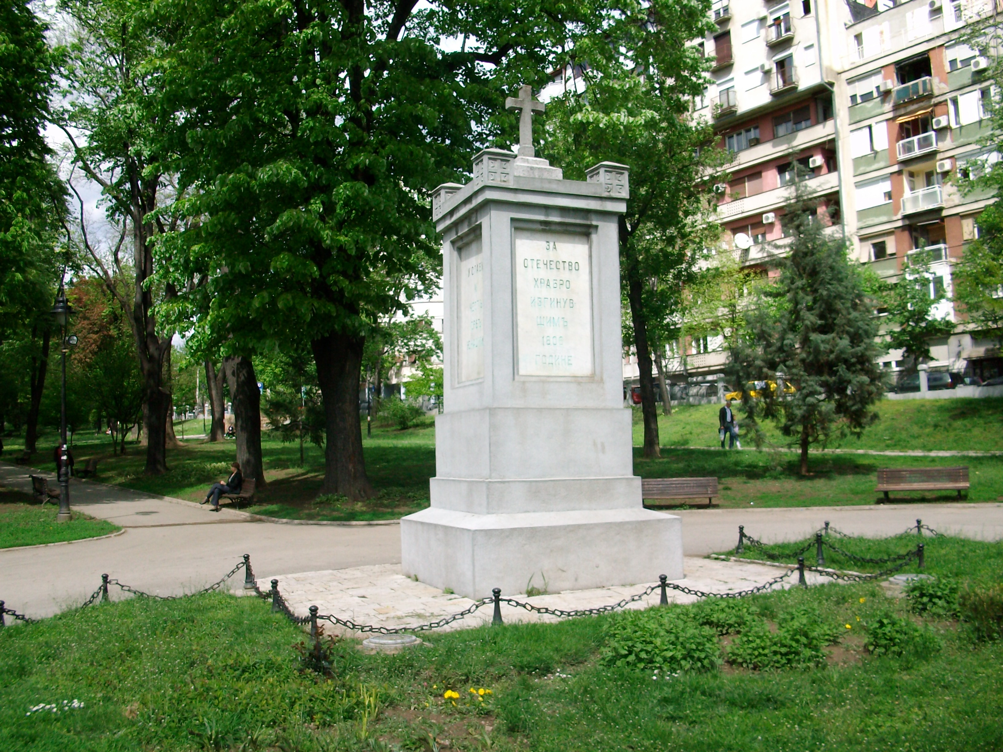 Monument to Serbian Prince Aleksanar Kardjordjevic